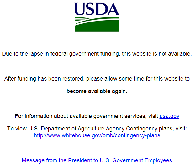 Screenshot of USDA website, closed during United States federal government shutdown of 2013